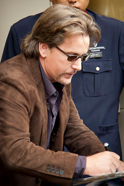 Actor Emilio Estevez at TIFF 2010.